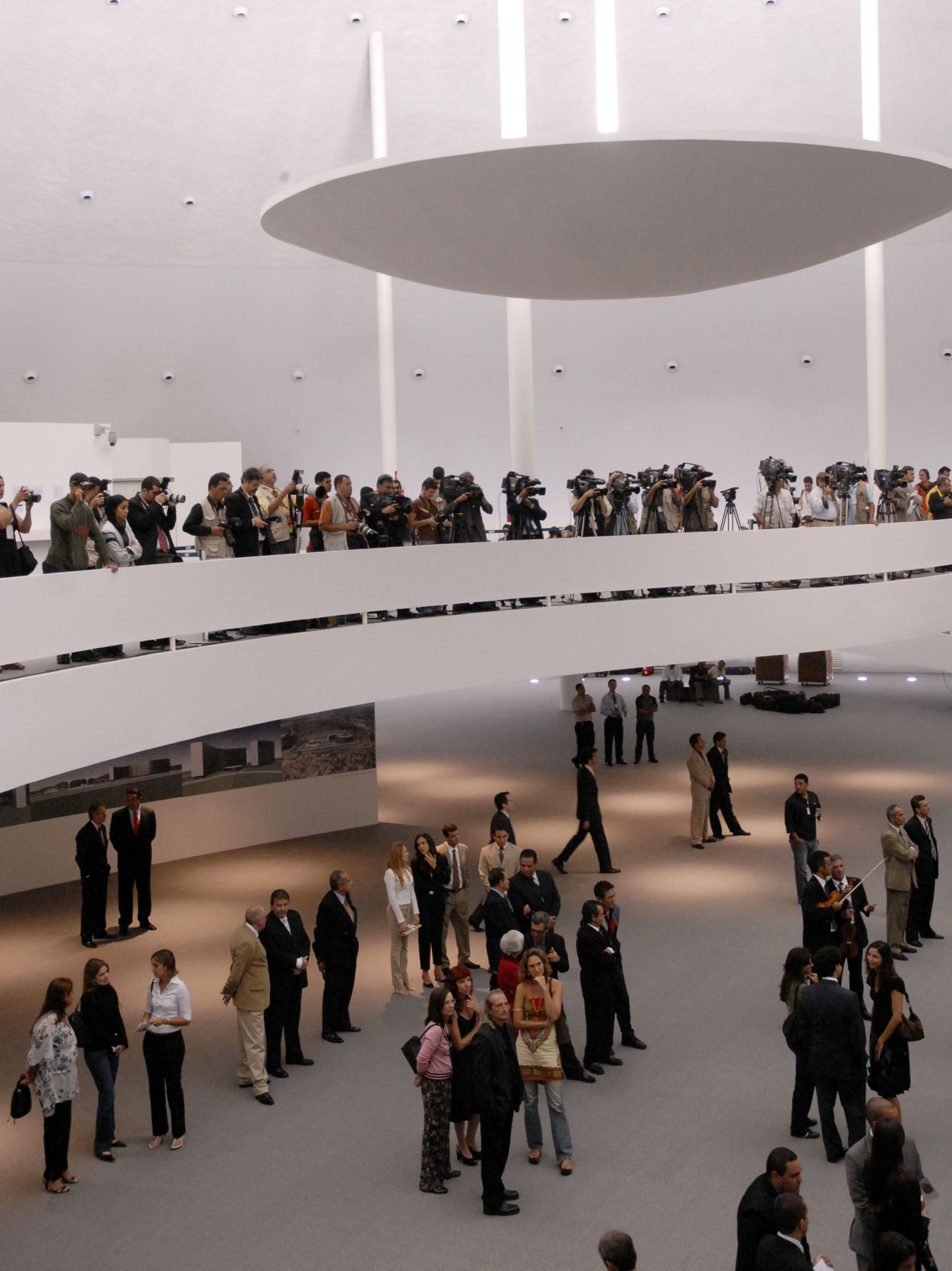 The Cultural Complex of the Republic ("Complexo Cultural da RepÃºblica" in Portuguese) in BrasÃ­lia, Brazil.